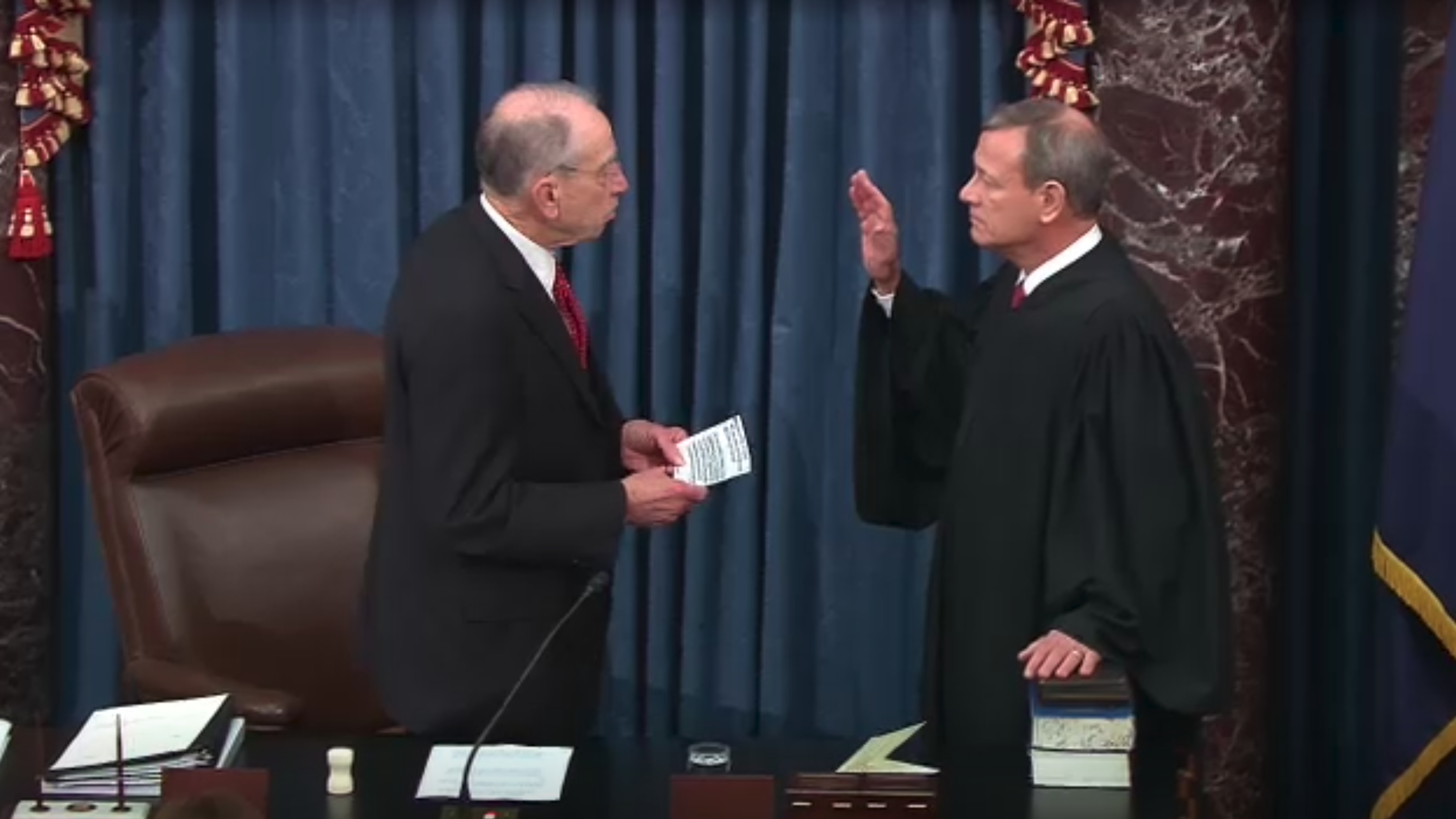 Senator Chuck Grassley administers the oath of office to Chief Justice John Roberts in the opening of the impeachment trial of Donald Trump